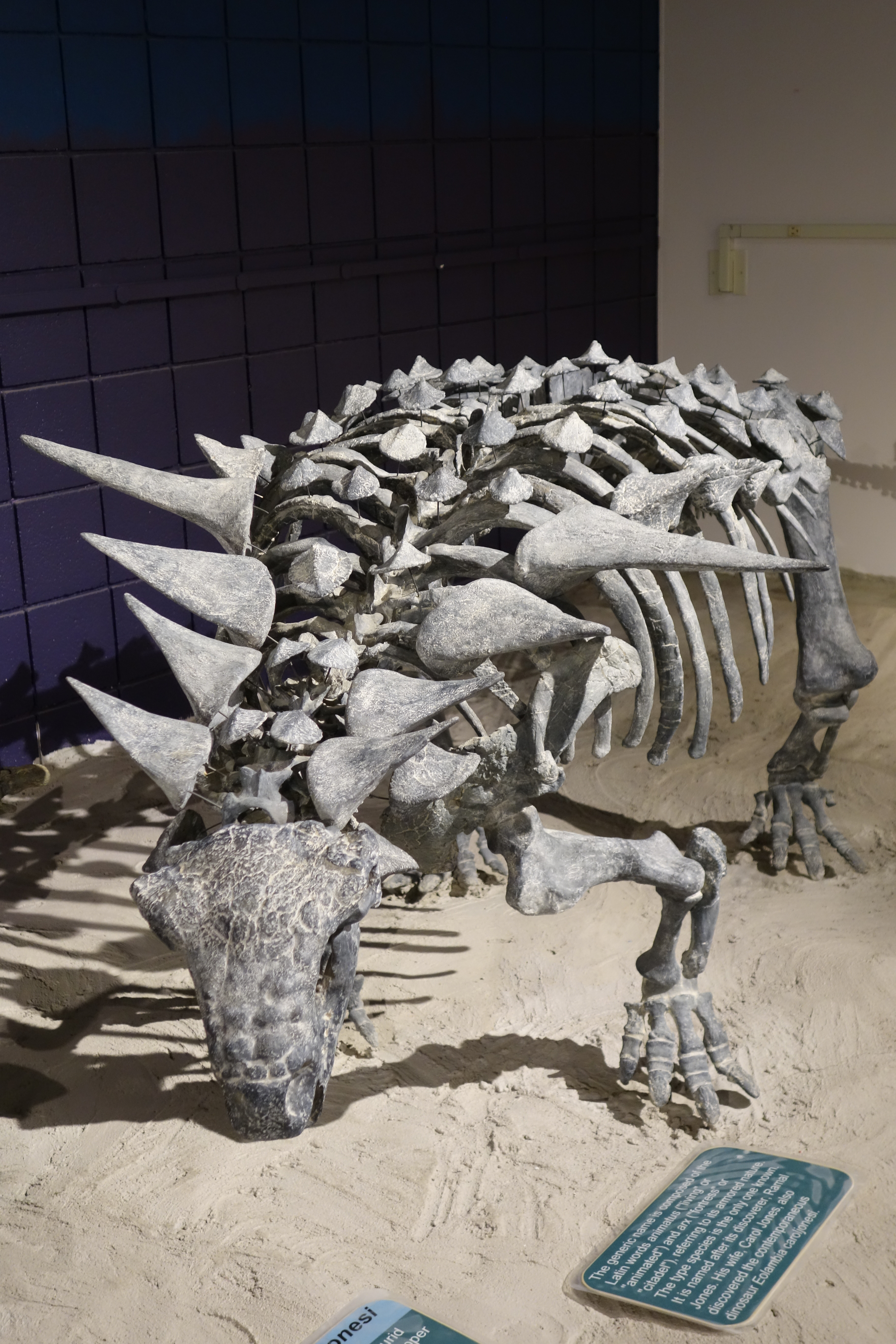 Skeletal cast of Animantarx ramaljonesi. On display at the USU Eastern Prehistoric Museum, Price, Utah (US).